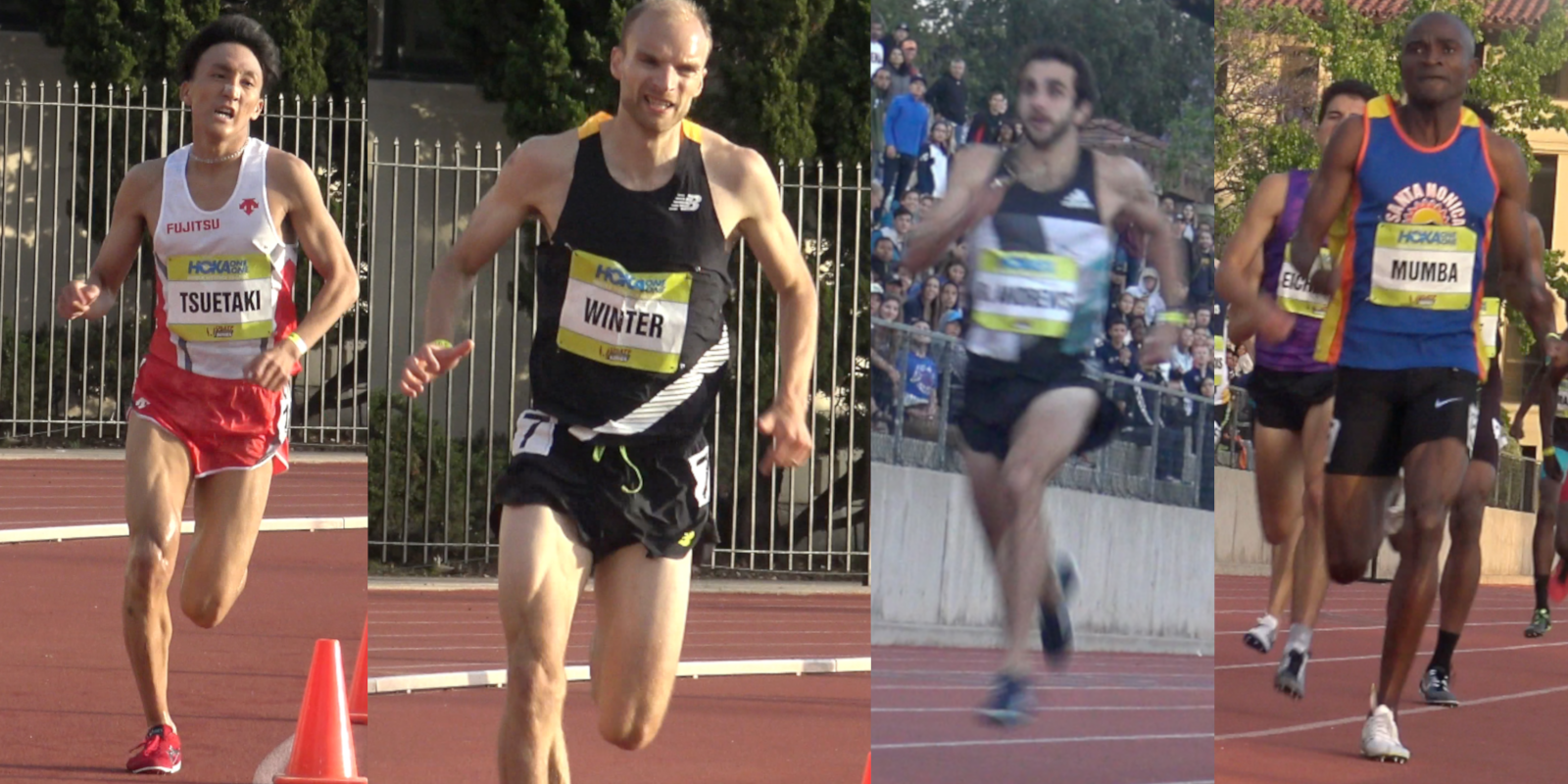 Compilation of photos from the Oxy Invite, AKA Hoka One One Distance Classic, AKA USATF Distance Classic, at Occidental College in 2016. Source at